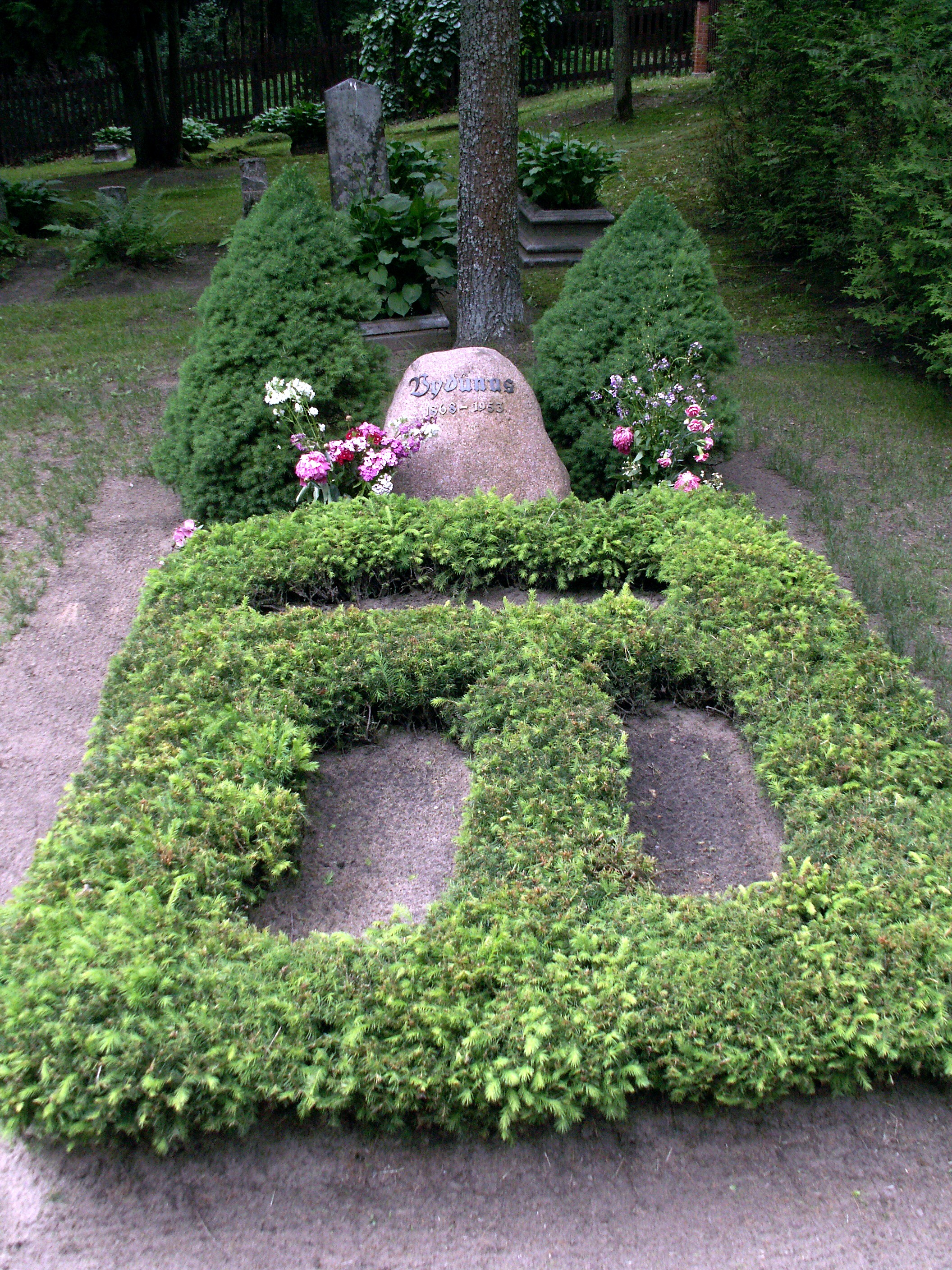 Thomb of Vydūnas,Cemetery Bitėnai, Pagėgiai district, Lithuania